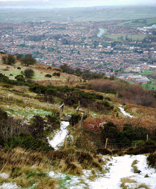 Cave Hill and Glengormley A view over the northern side of Cave Hill with Glengormley in the distance beyond.